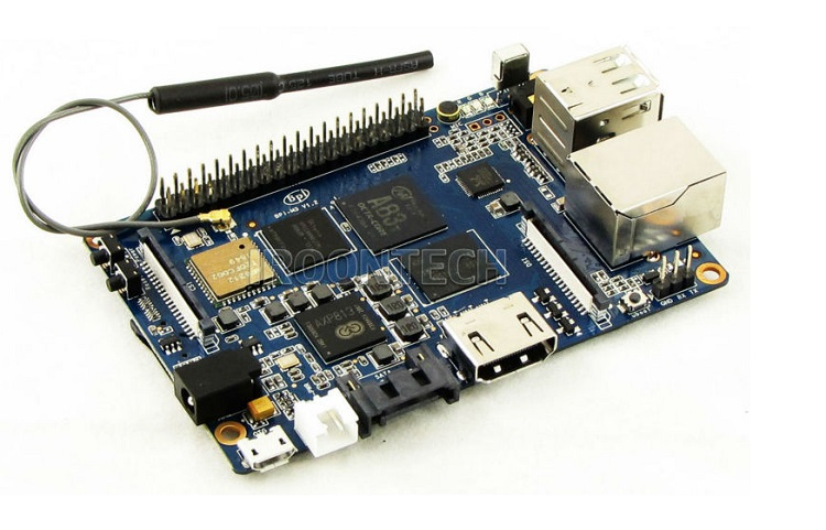 Banana pi BPI-M3